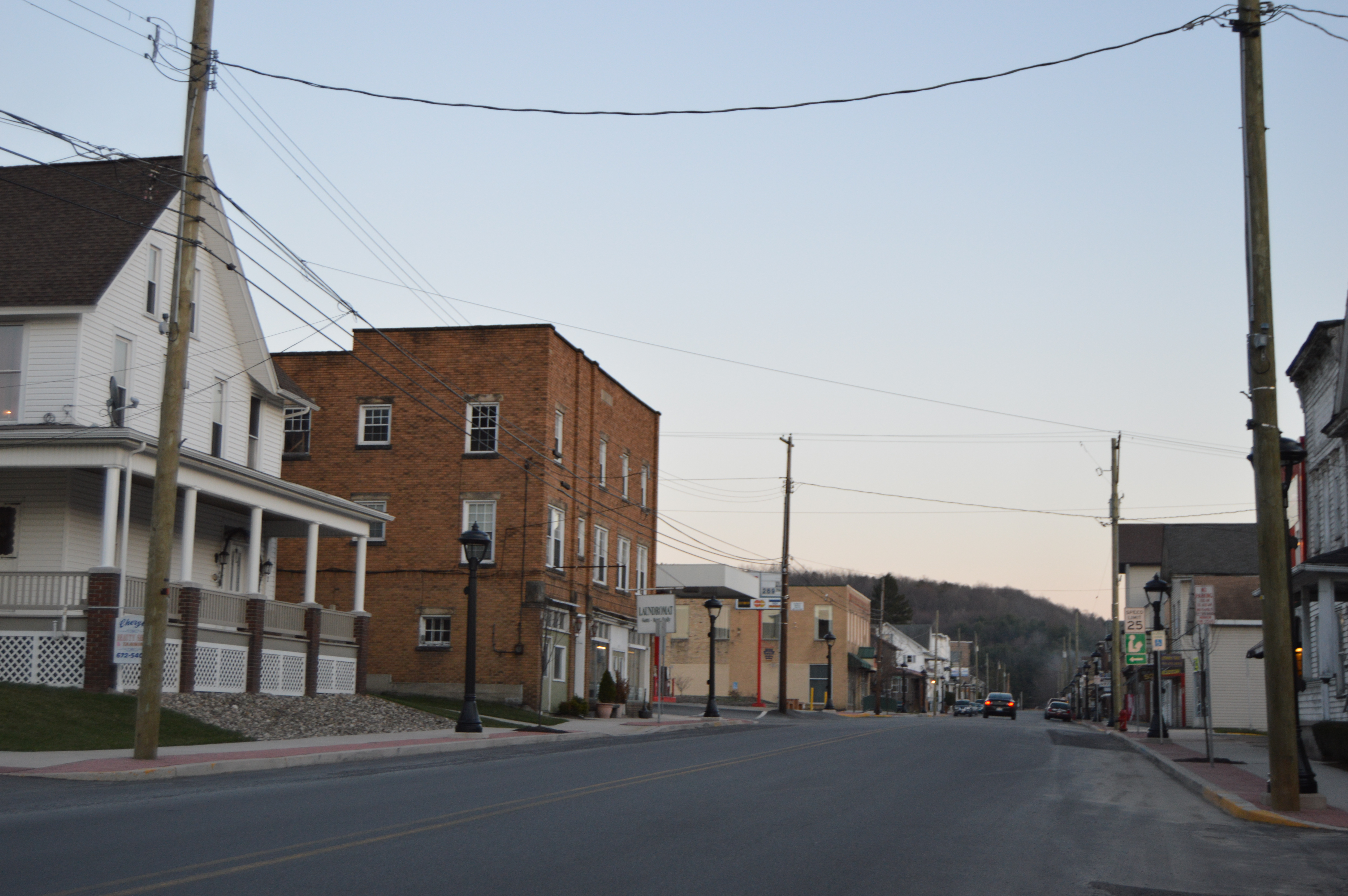 Looking south from Spruce Street along Main Street (Pennsylvania Route 53) in Coalport, Pennsylvania, United States. This section of Main is the core of the Coalport Historic District, a historic district that is listed on the National Register of Historic Places.